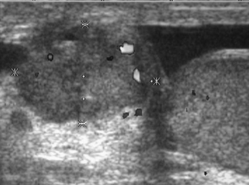 Scrotal ultrasonography of a mesothelioma.